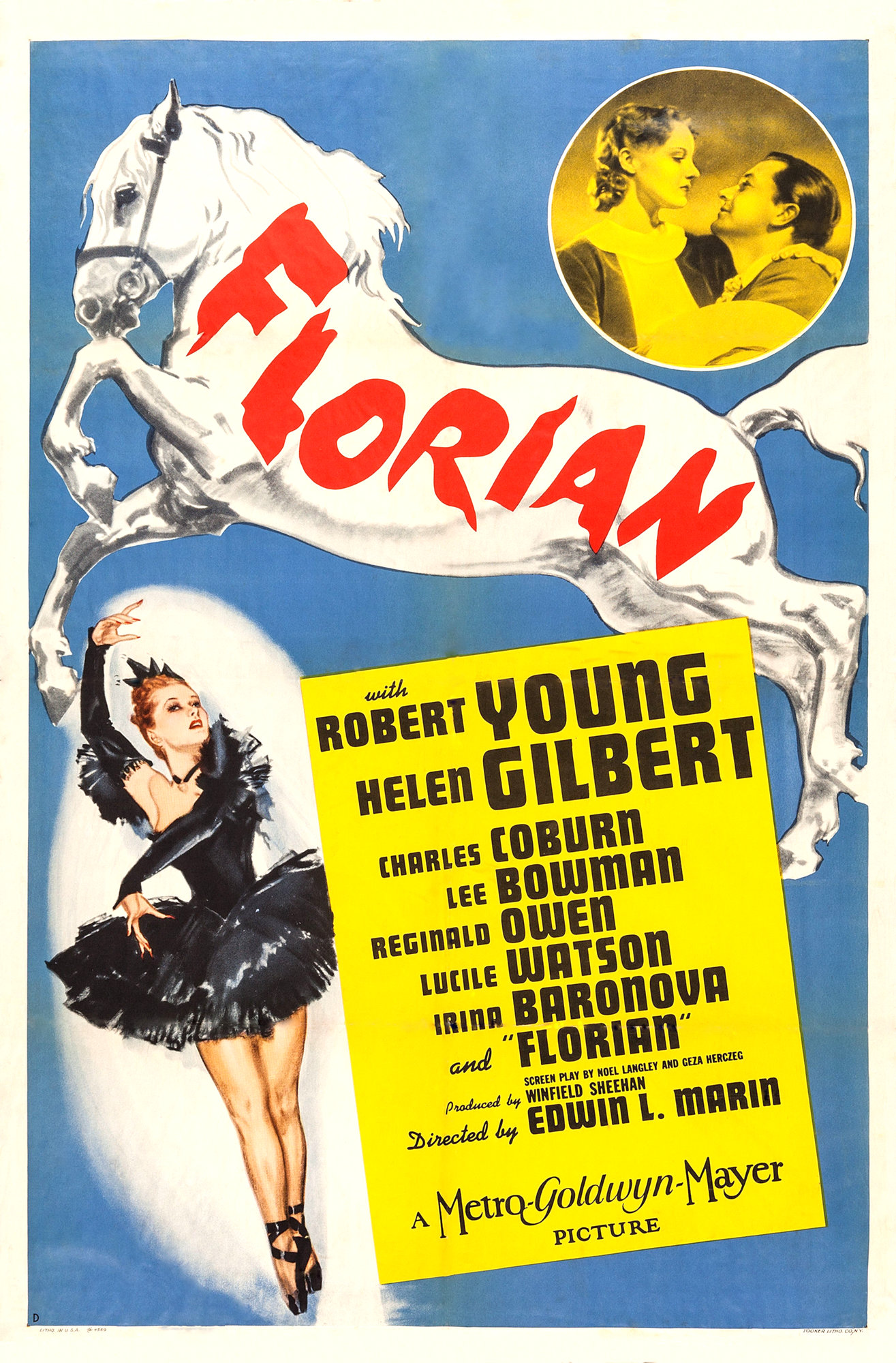 Poster for the 1940 film Florian.. The item has no copyright markings on it as can be seen in the links above. At bottom left is Litho in USA and {looks like} #4556. At bottom right is Tooker Litho Co. NY-they printed the poster.